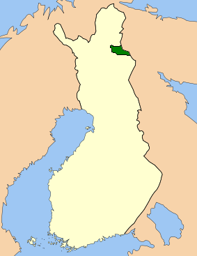 Urho Kekkonen National Park in Finland (map)